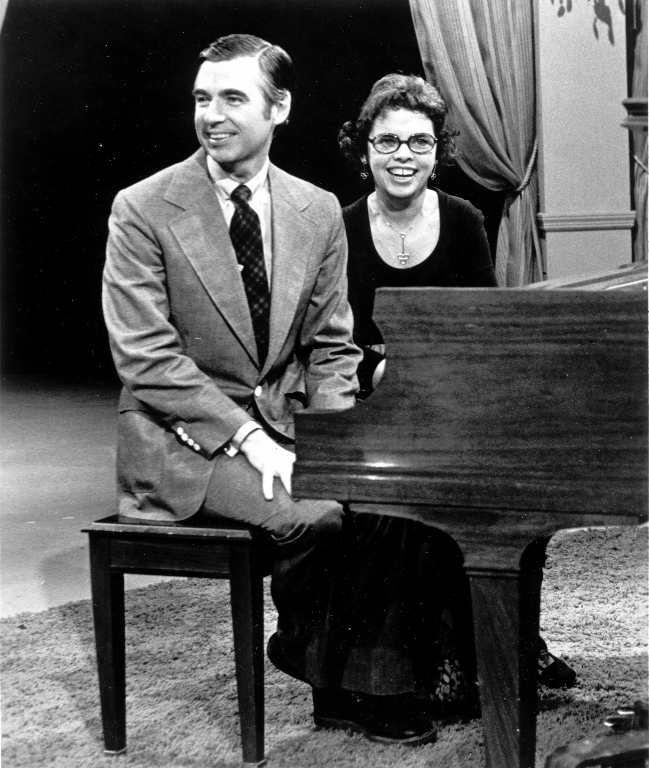 Fred and Joanne Rogers sitting at a piano.